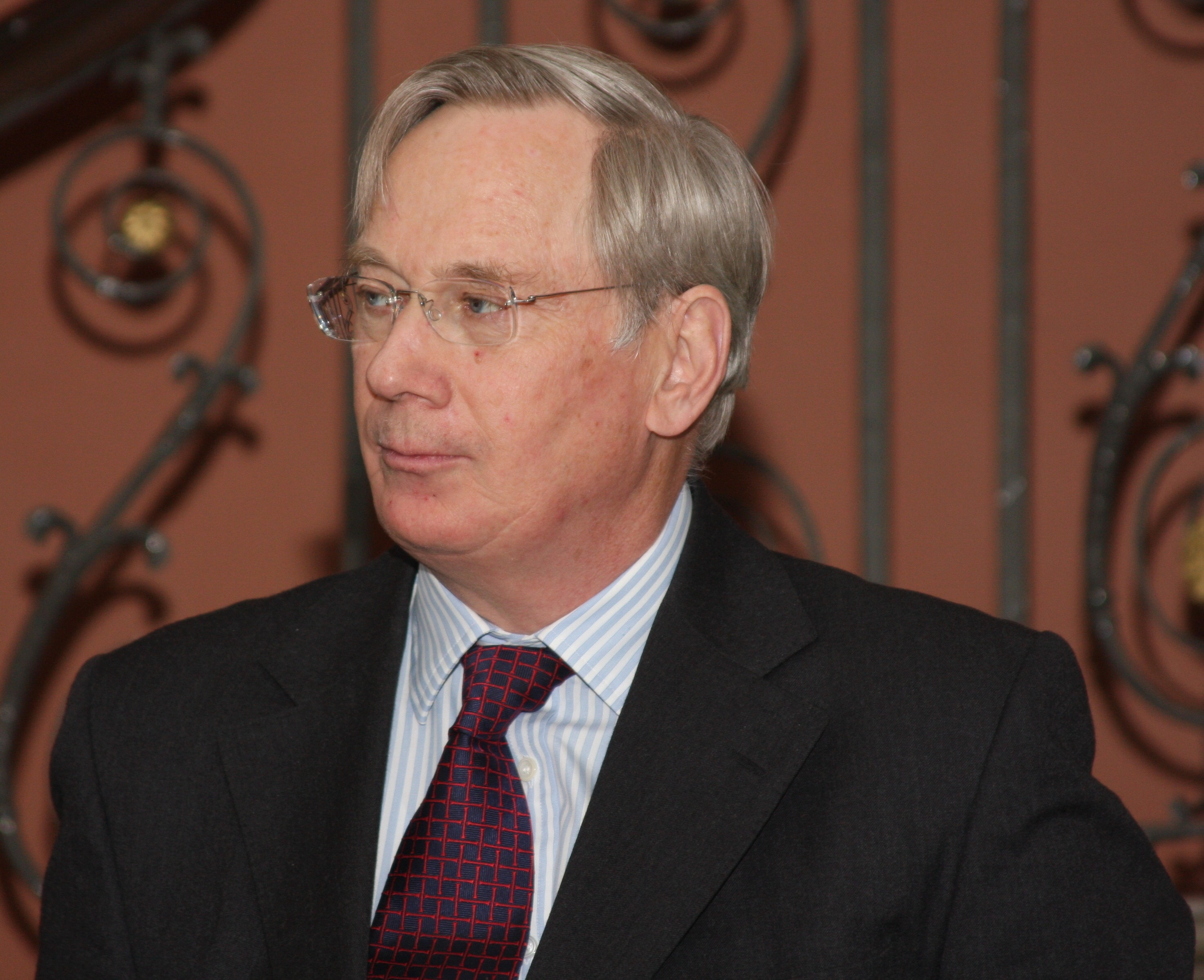 The Duke of Gloucester in 2008